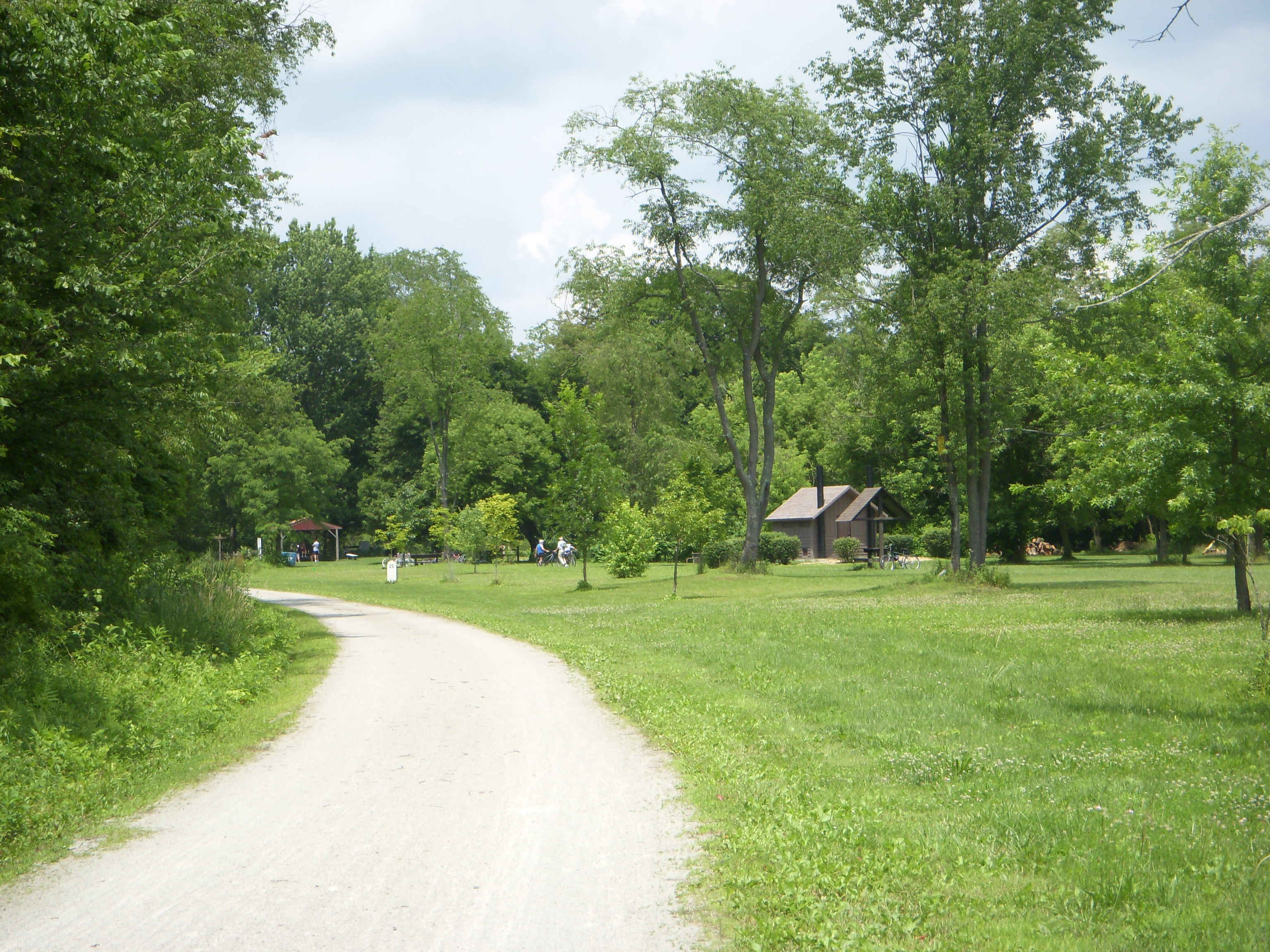 Dravo Cemetery and Campground at mile post 25 on the Youghiogheny River Trail.